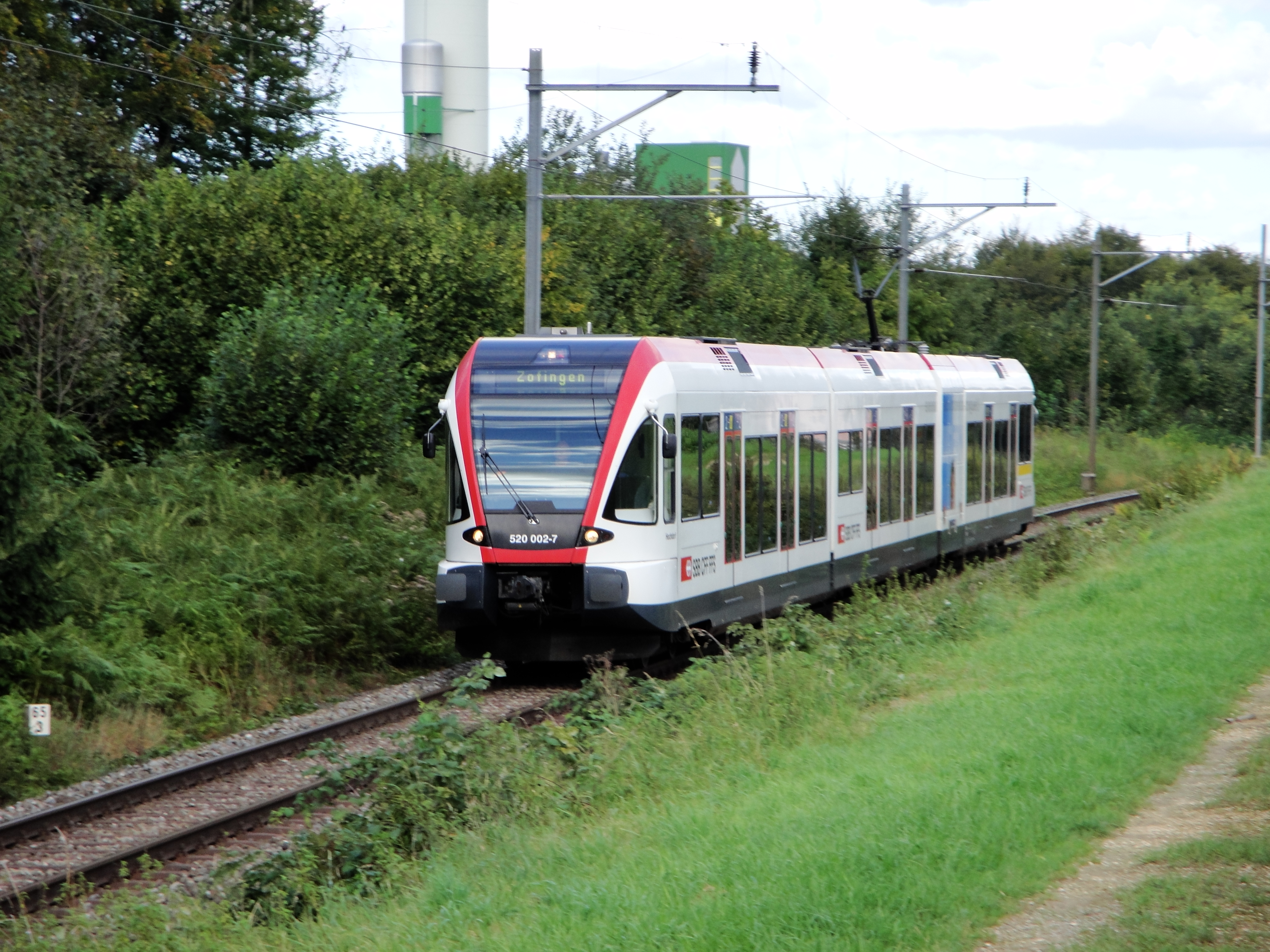 Stadler GTW 2/8 of the Argovian suburban railway line S28 between Hunzenschwil and Suhr